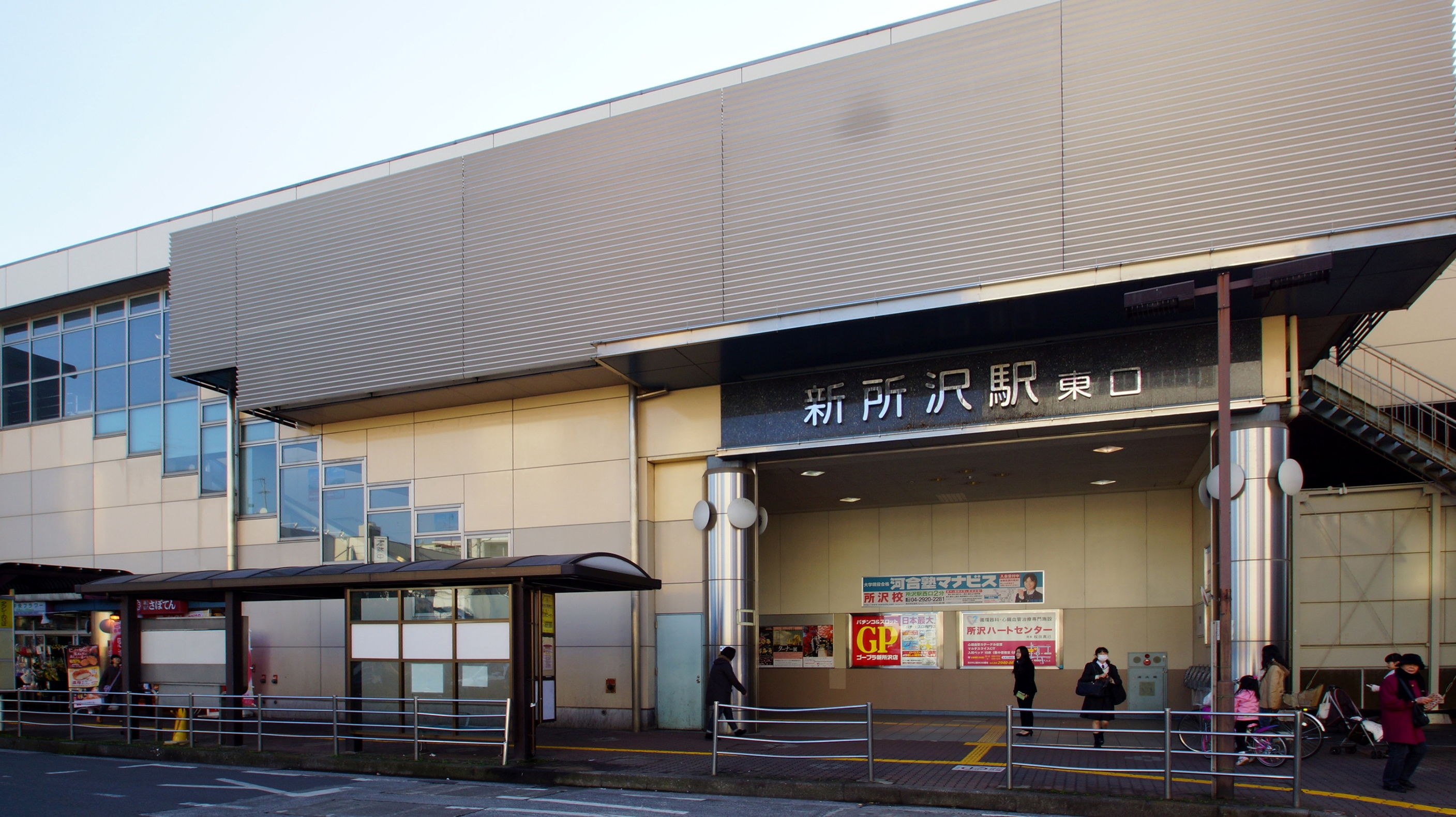 The east entrance of Shin-Tokorozawa Station on the Seibu Shinjuku Line in Saitama Prefecture, Japan